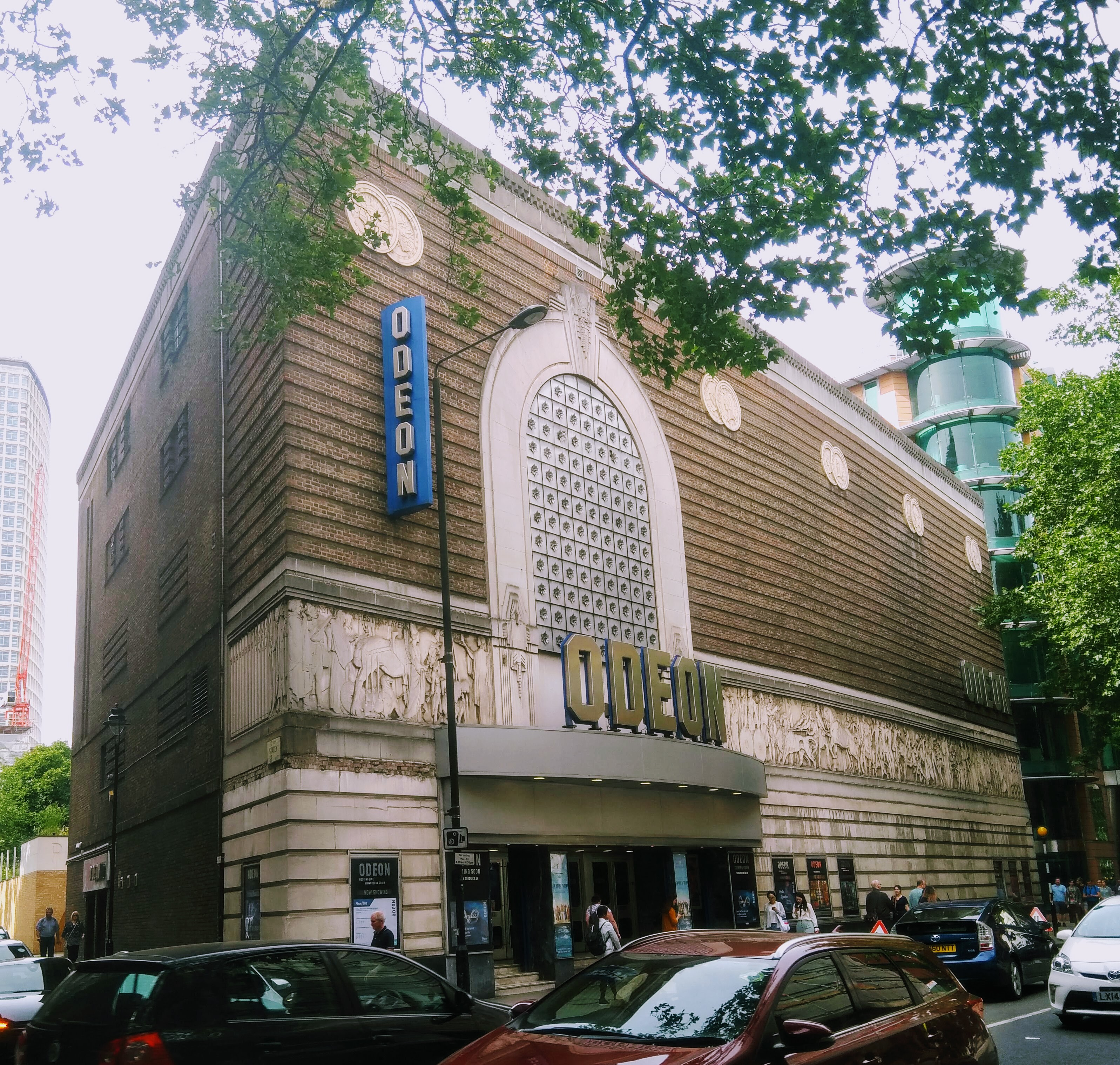 The Odeon Covent Garden (formerly the Saville Theatre) as it stands in 2018